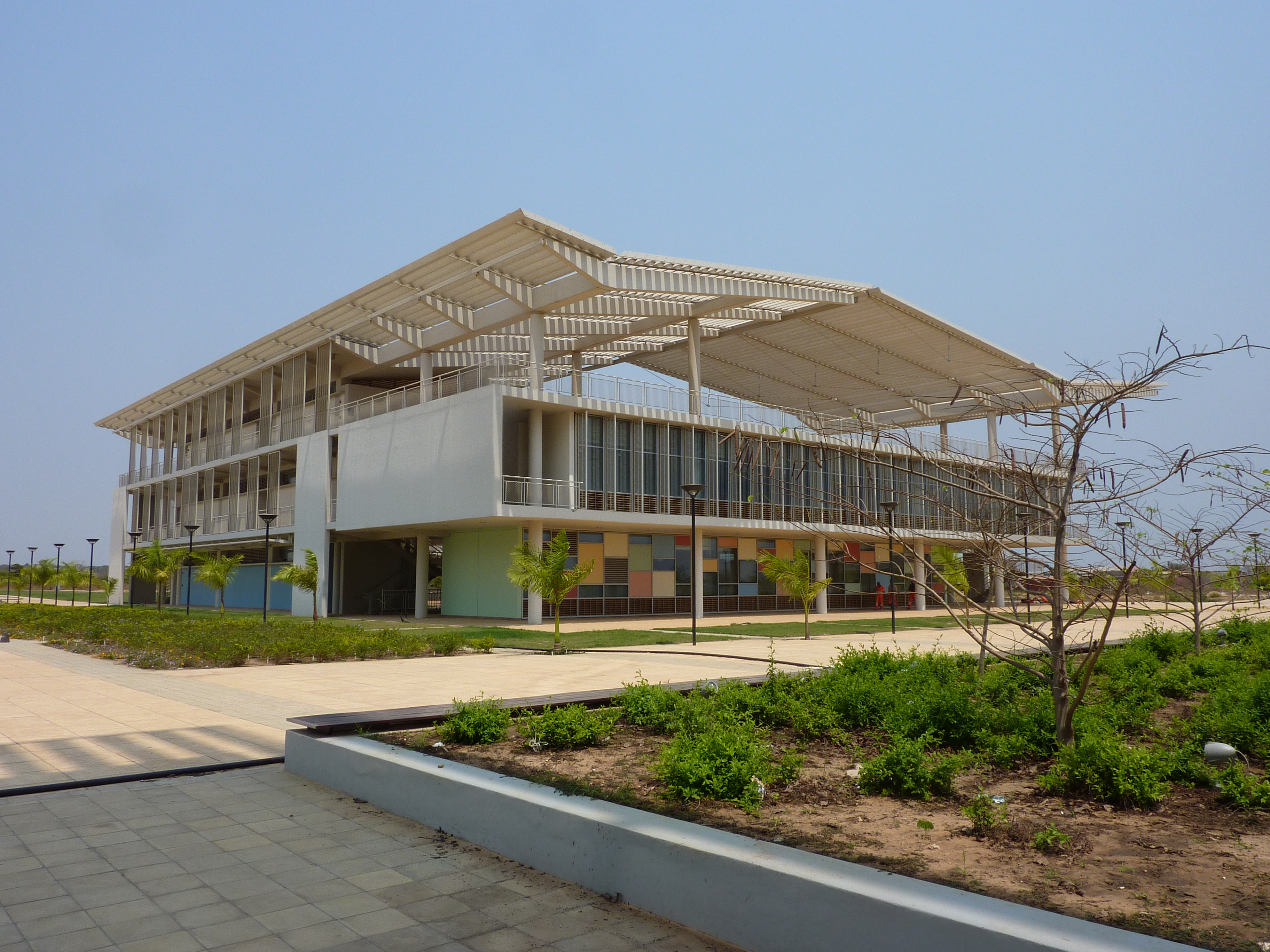 New campus